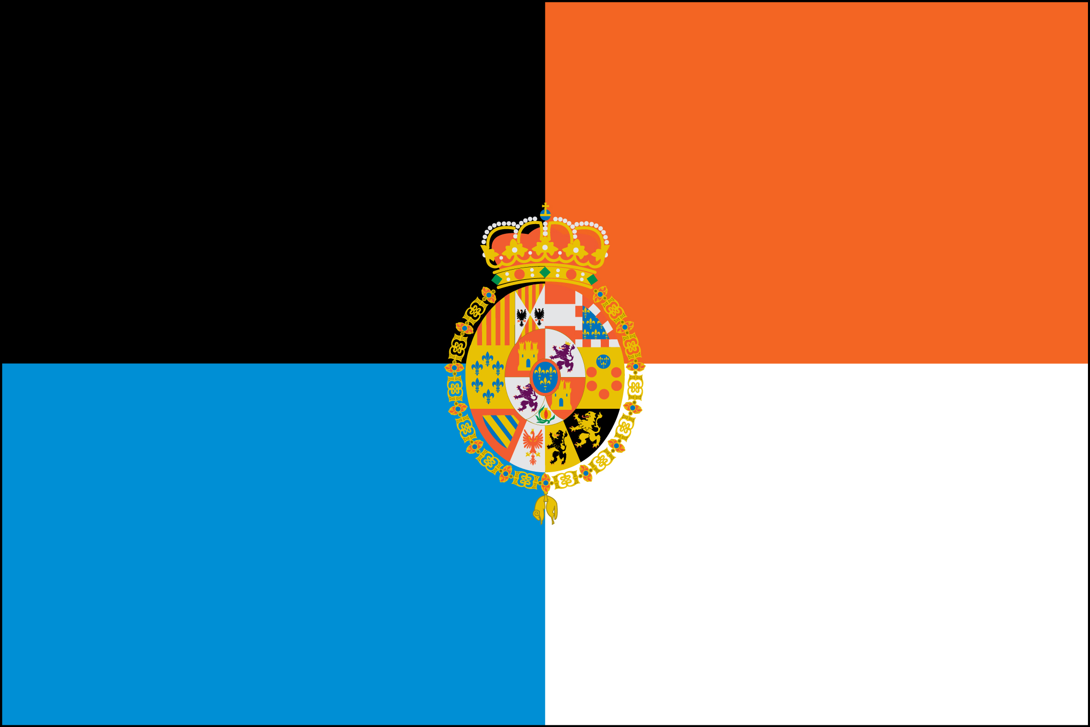 Flag of La Mancha with royal COA/ Bandera de La Mancha con escudo real.